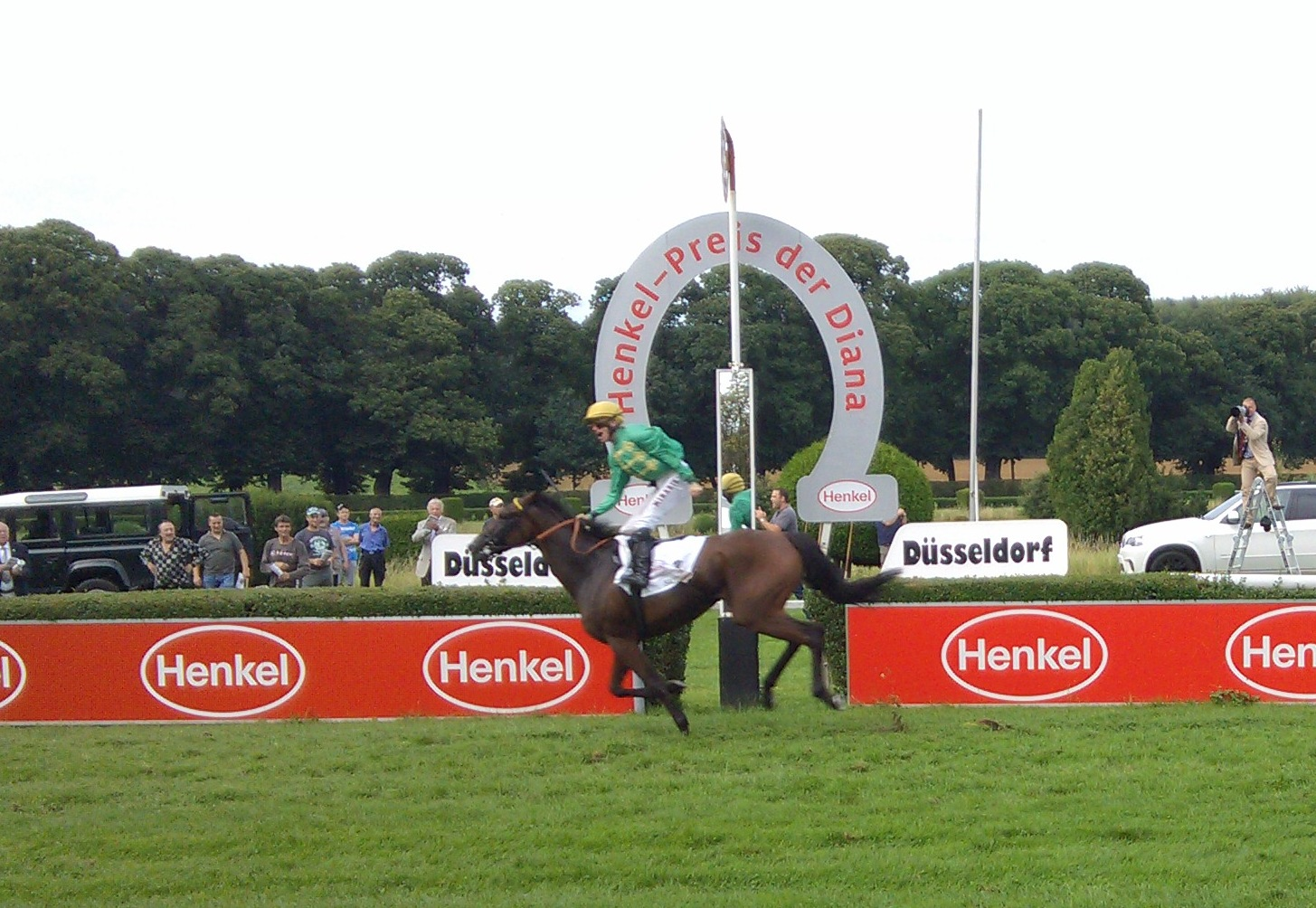 "Salomina" with jockey Filip Minarik wins the 2012 horse race "Preis der Diana" in Düsseldorf-Grafenberg, Germany